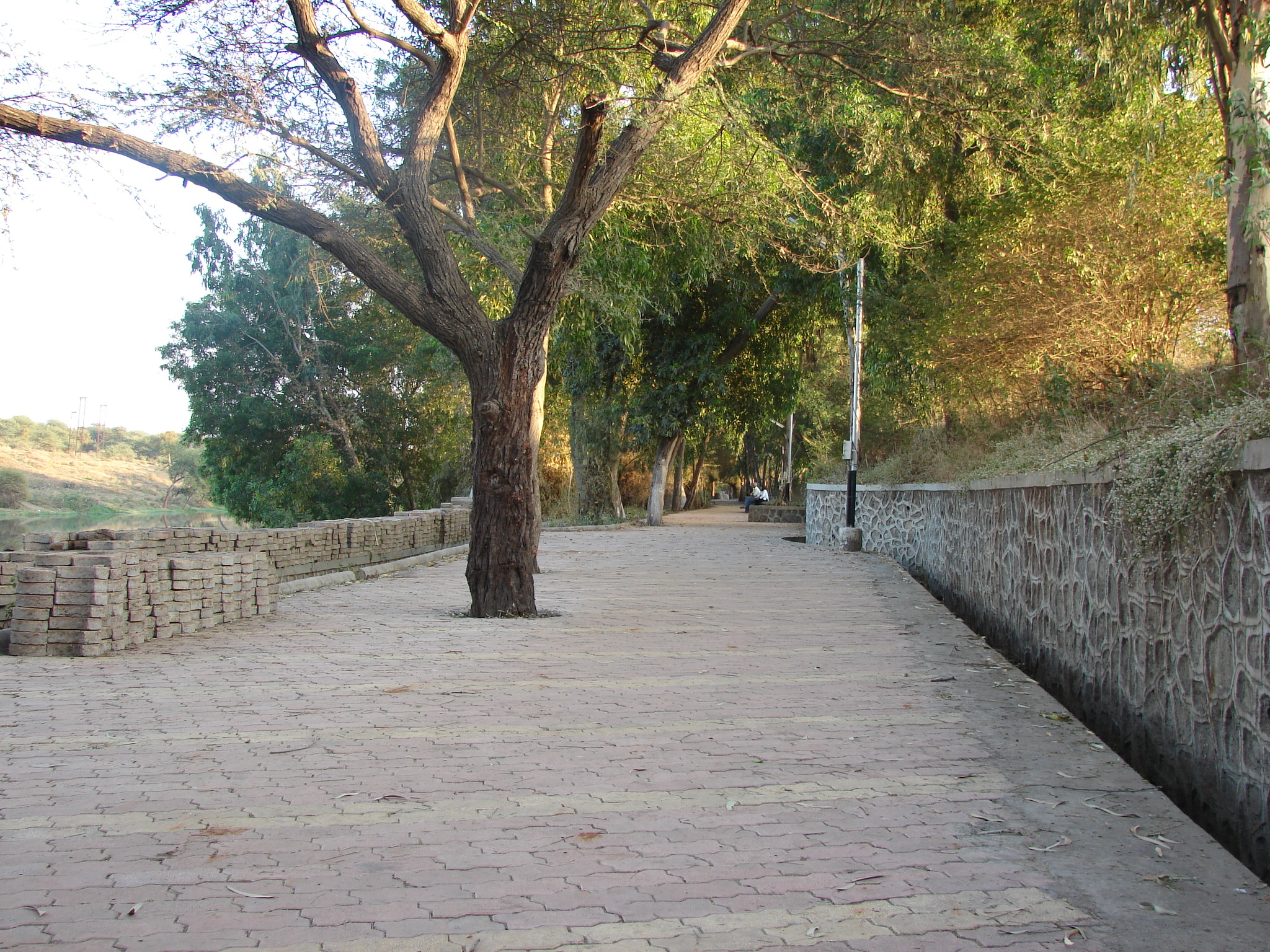 Park on the banks of Godavari river in Nashik